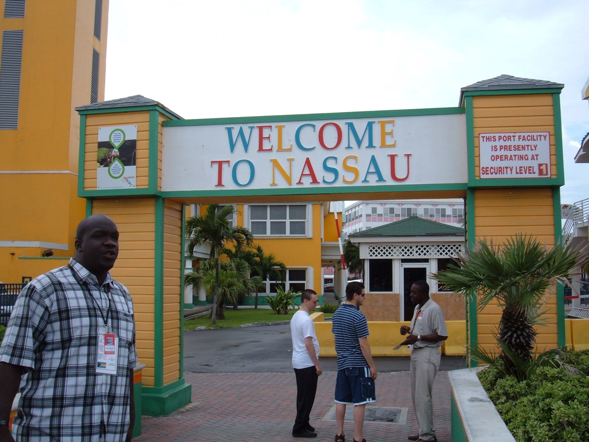 A welcome gateway at Nassau, The Bahamas.